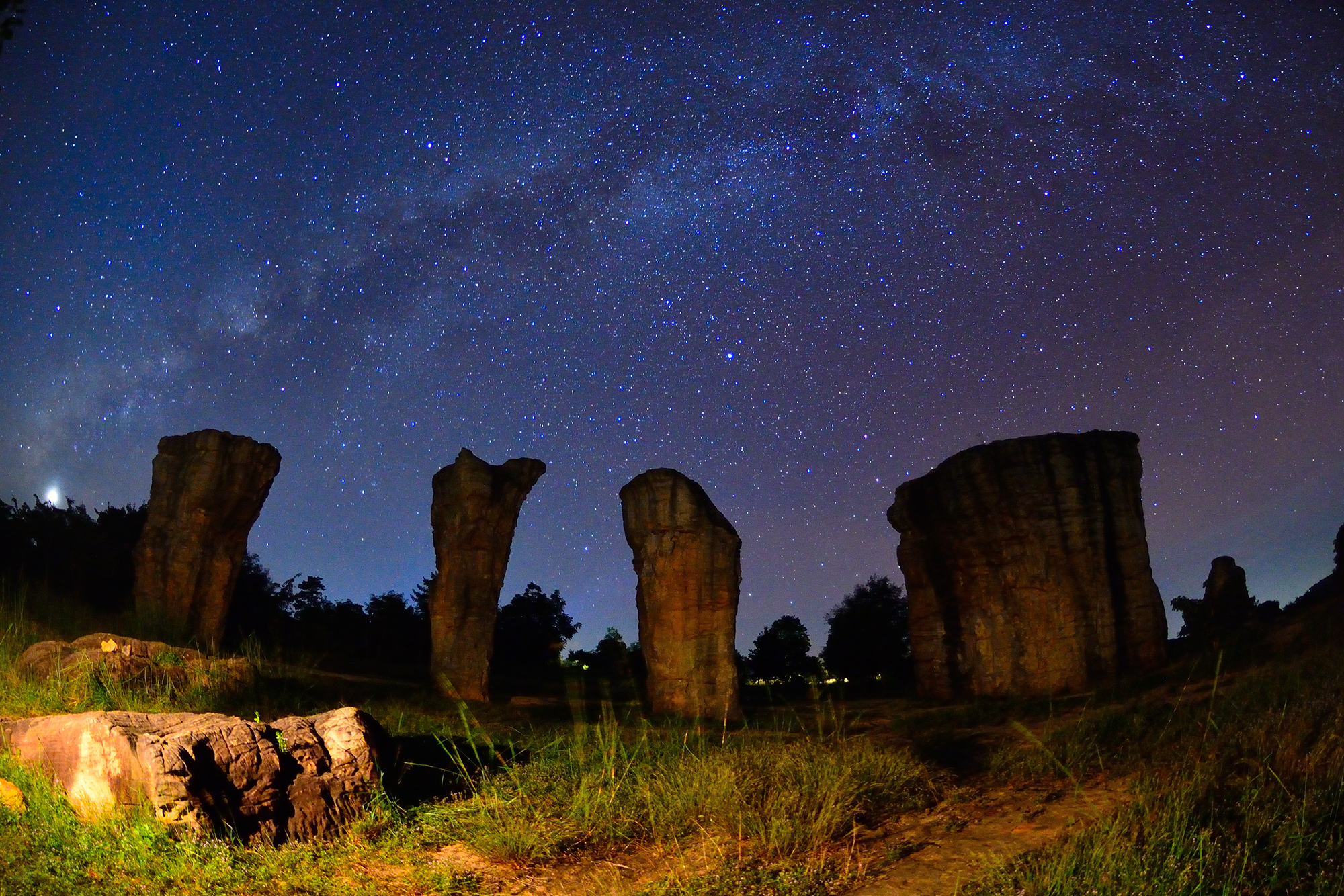 The Milky Way is visible over Mo Hin Khao rock formation in Phu Laenkha National Park, Chaiyaphum, Thailand